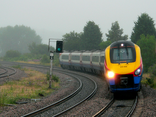 Next stop Wellingborough